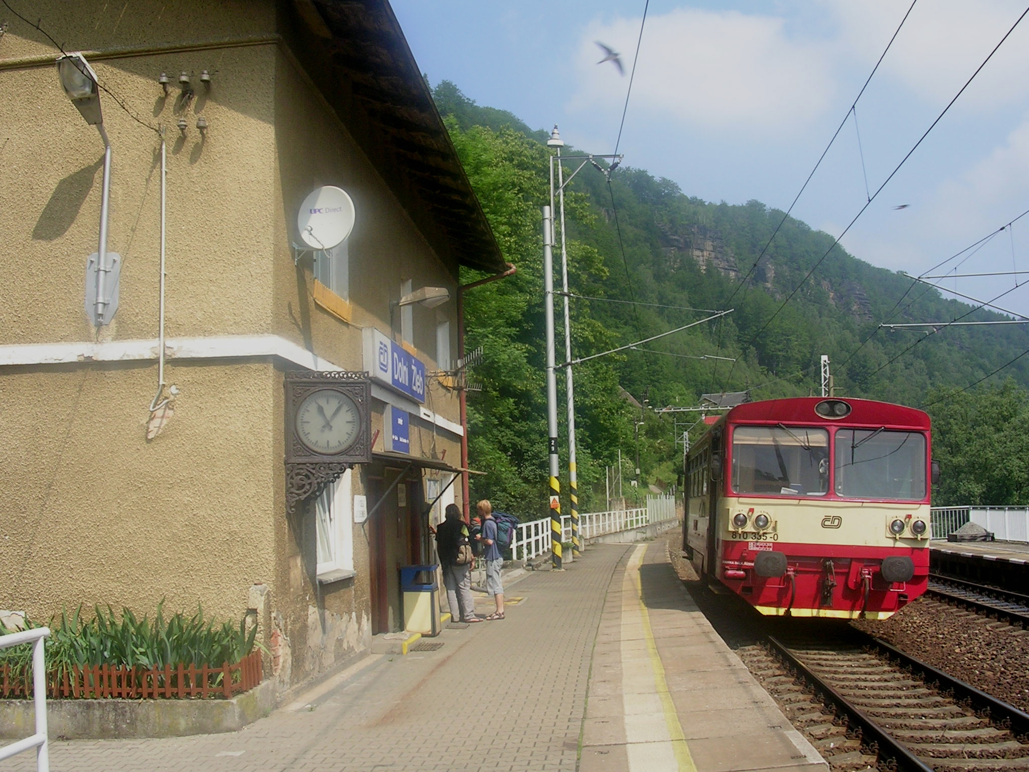 Train station (Děčín-) Dolní Žleb, the Czech Republic.